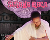 Afrodiaspora CD cover for Susana Baca designed by Grimanesa Amorós Studio